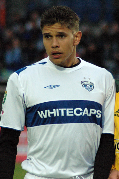 Photo of Adrian Cann, soccer player.